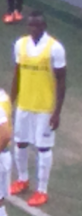 Joel warming up for Santos against São Bernardo on 30 January 2016, at the Vila Belmiro.